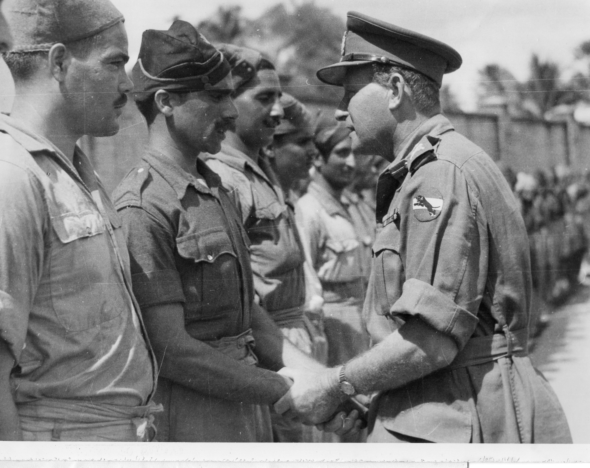 Lieutenant General Ouvry Roberts greeting recently released Indian prisoners of war in Malaya, 1945.